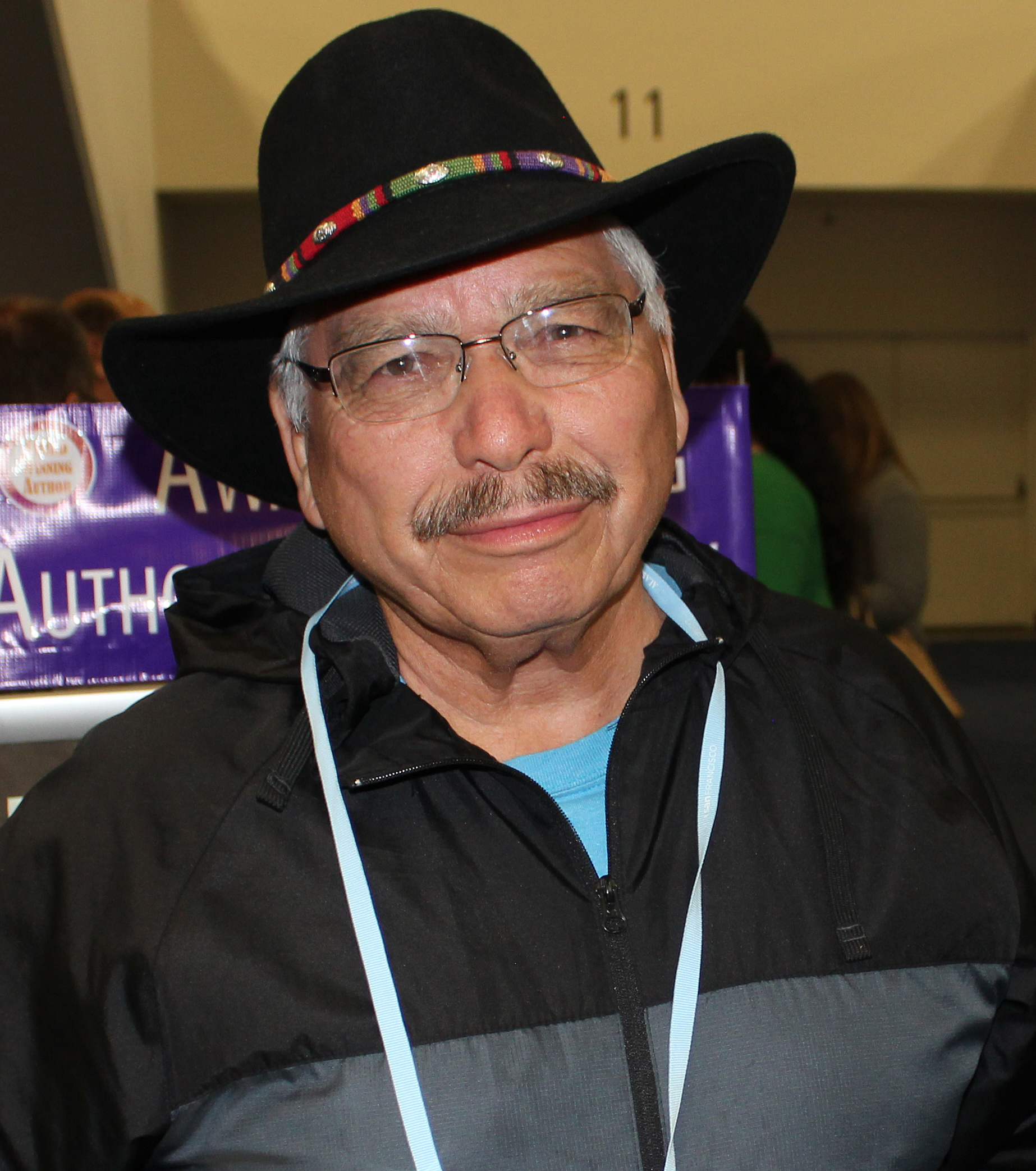 Victor Villaseñor, an American novelist.